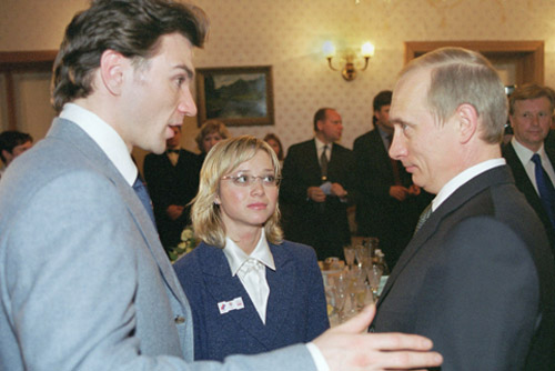 NOVO-OGARYOVO. President Vladimir Putin meeting with Russian Olympic team athletes and trainers. Mr Putin with Olympic champion figure skaters Anton Sikharulidze and Yelena Berezhnaya.